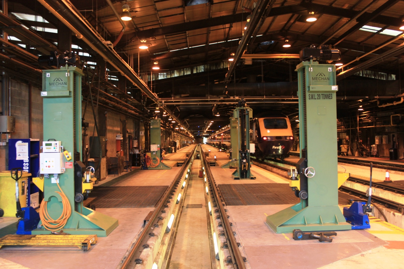 Inside the High Speed Train (HST) servicing shed at St Philip's Marsh, Bristol, which was opened in 1976. The four jacks in the foreground can be used to lift an HST power car if it needs a bogie change. An HST can be seen on the middle road with power car 43127 nearest the camera.